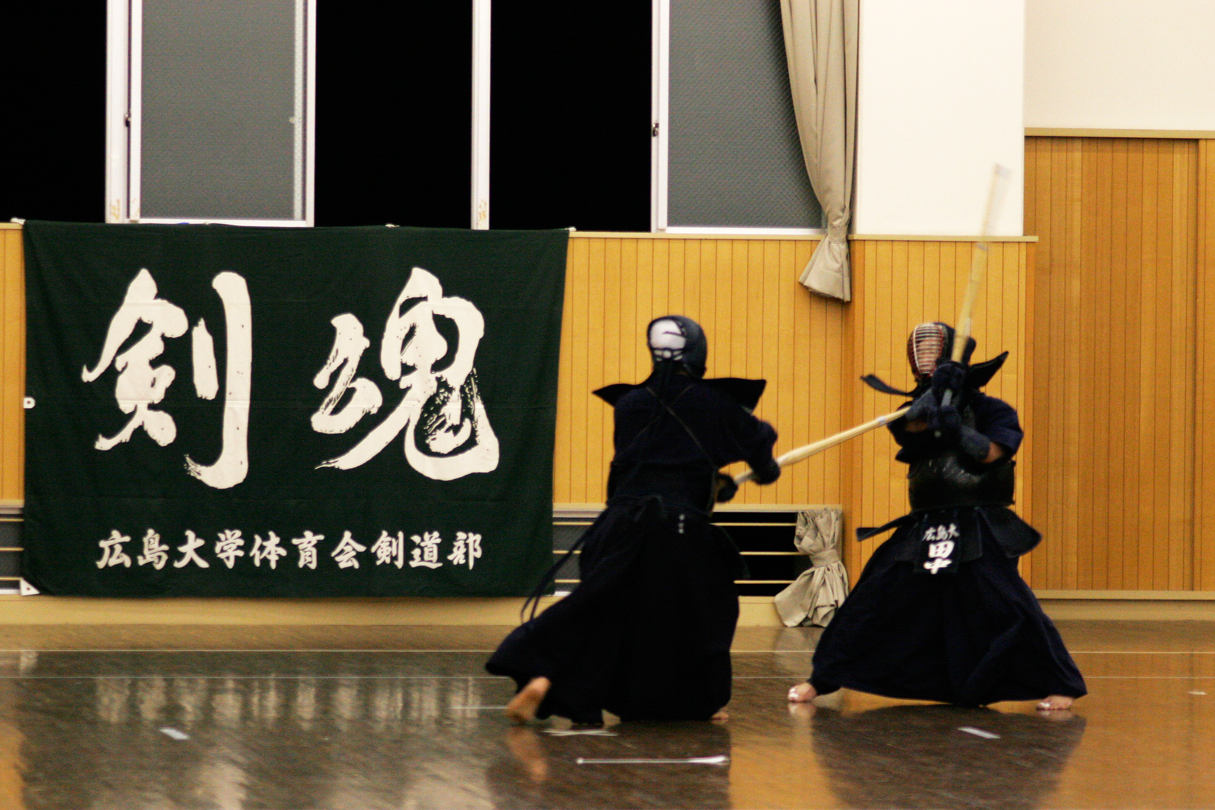 Two students practicing kendo at Hiroshima University. Club Activities